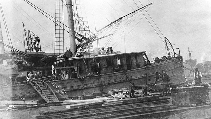 USS Long Island (SP-572). Probably photographed while being altered for Navy service, circa May 1917. The location appears to be the Boston Navy Yard.